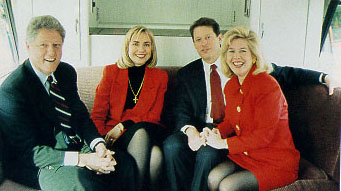 (Left to right): Bill Clinton, Hillary Clinton, Al Gore, Tipper Gore